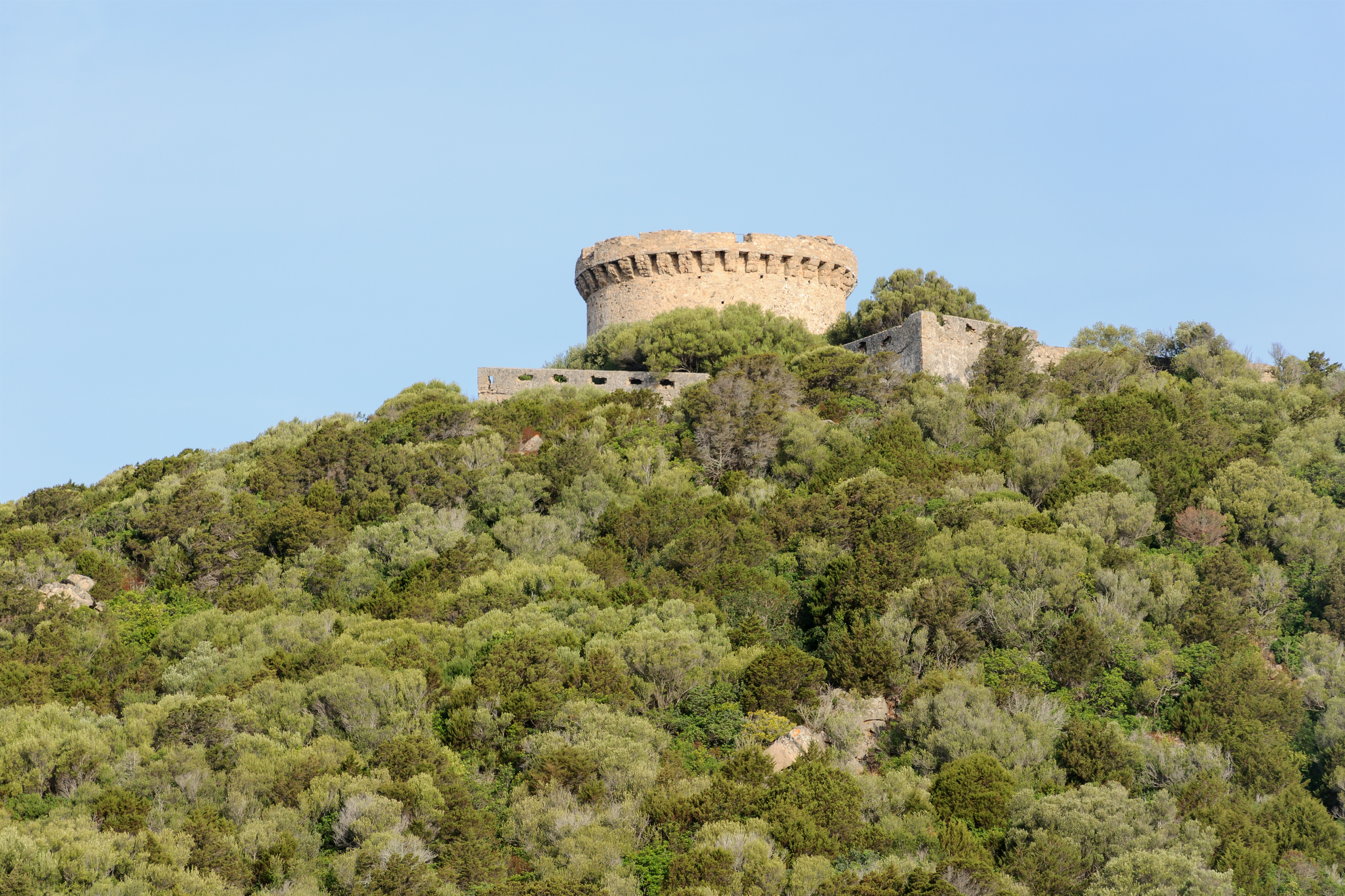 The Genoese tower of Campomoro, Belvédère-Campomoro, Southern Corsica, France. One can discern its star-shaped defensive walls. Corsu: Torra di Campumoru, Belvideri è Campumoru, Corsica suttana .